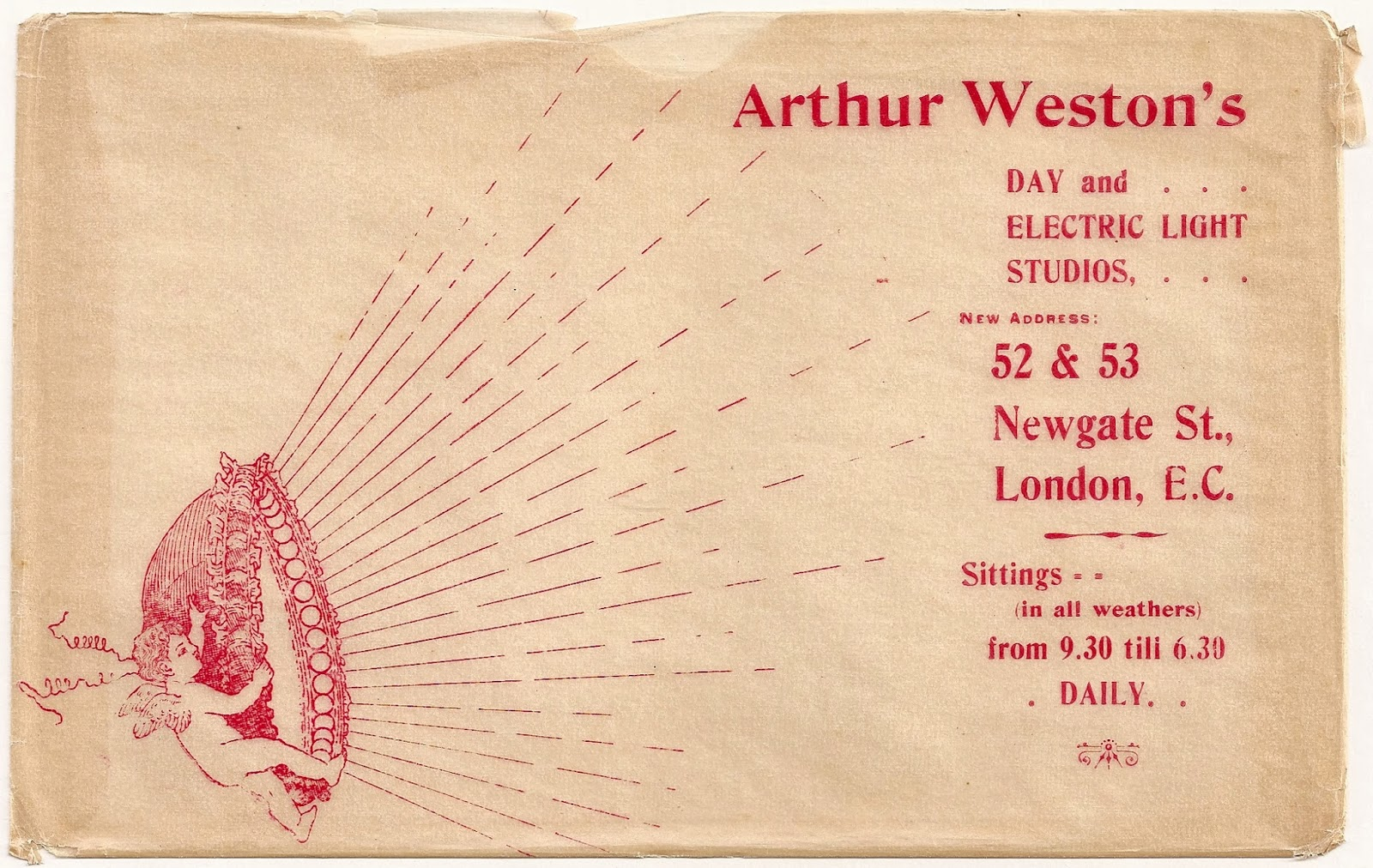 „Day and electric light studios ... new adress 52 & 53 Newgate St., London, E.C. ... Sittings (in all weathers) from 9.30 til 6.30 daily“ Glassine cover by photographer Arthur Weston for his cabinet cards ...